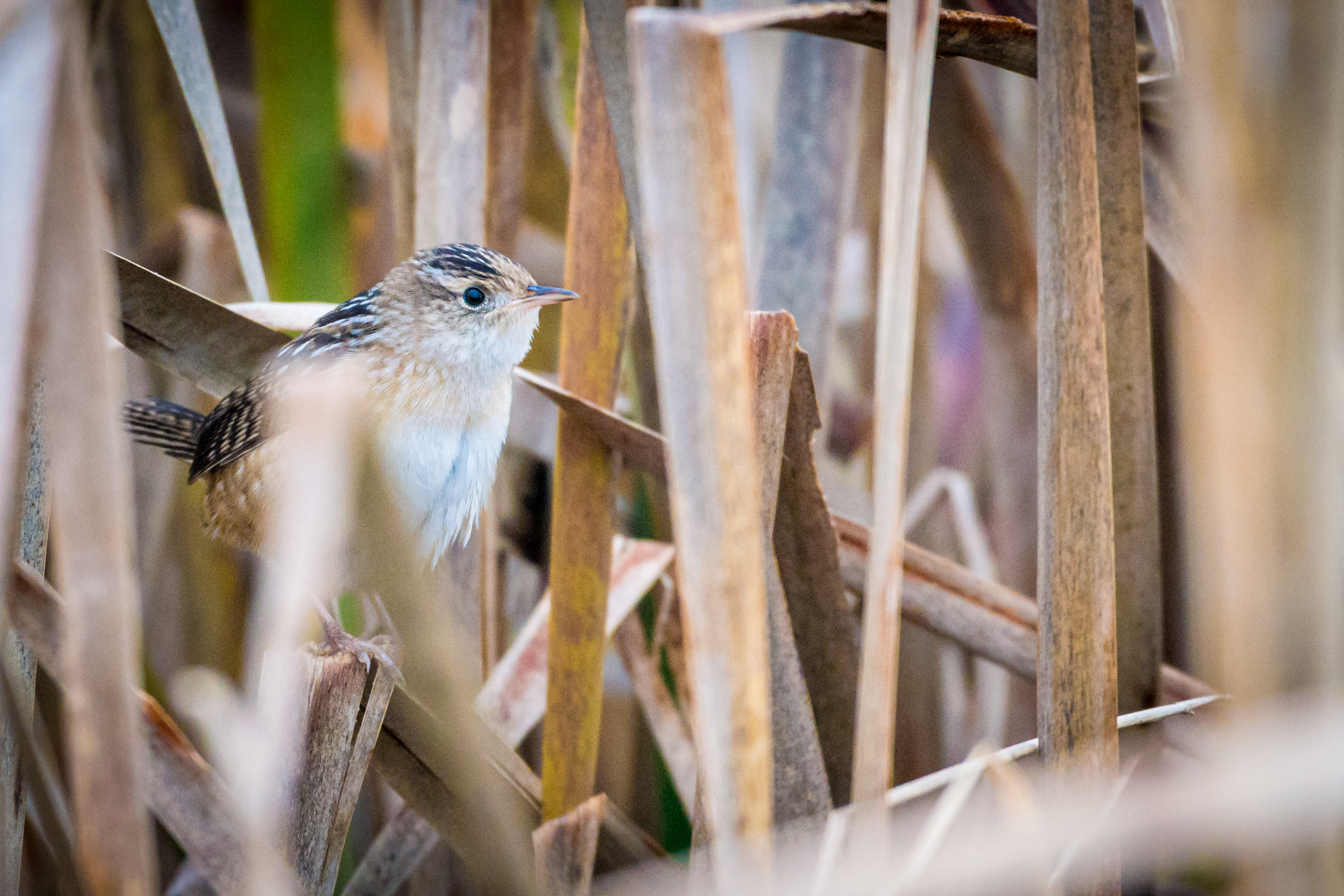 Ellis Lake Wetlands, Fairfield, Ohio